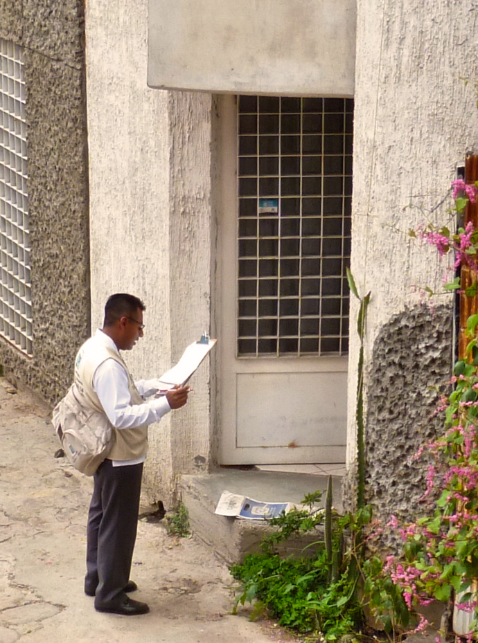 An Instituto Nacional de Estadística y Geografía employee going door-to-door in Barrio Xalatlaco gathering Census information. Location: Oaxaca de Juarez, Oaxaca, Mexico.